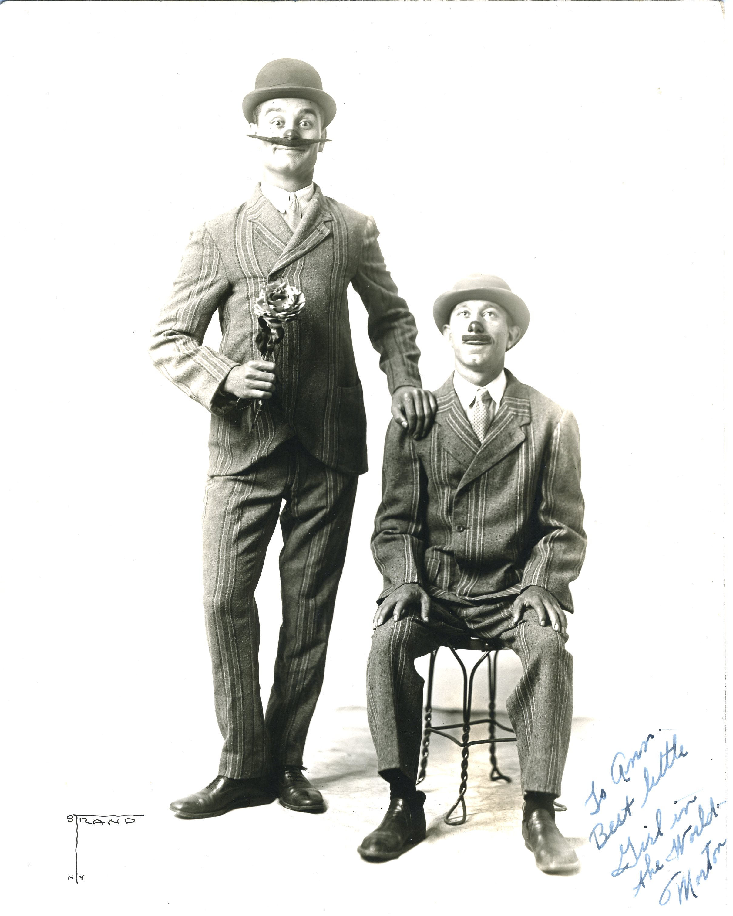 Morton and Mayo taken in Aug 1924